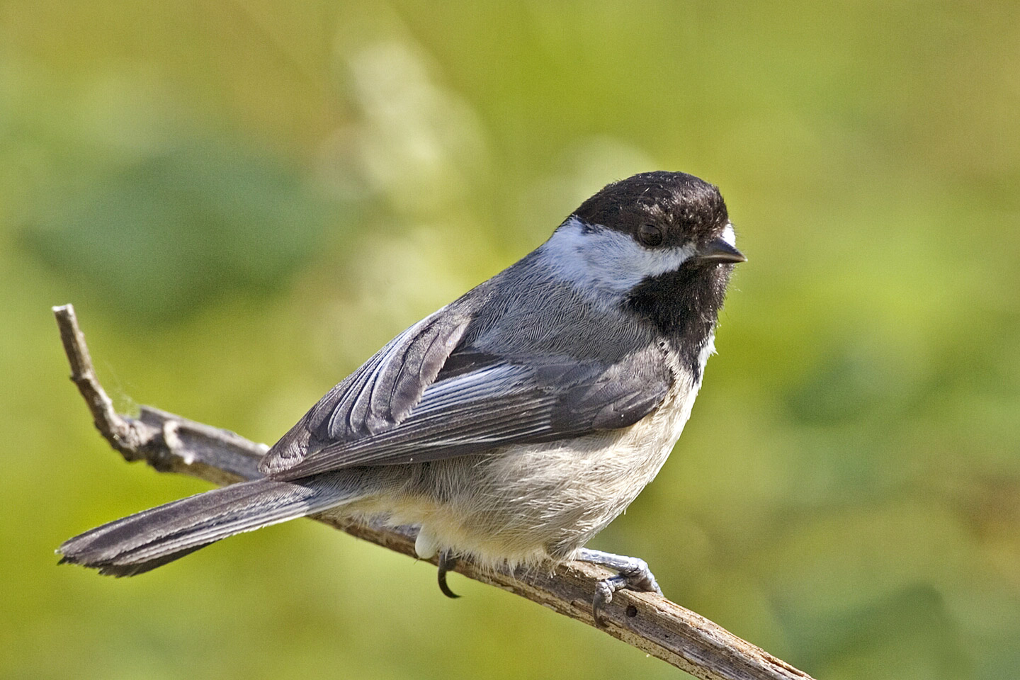 A Blacked-Capped Chickadee (Poecile atricapillus, paridae), Iona Beach Regional Park, Richmond, British Columbia.